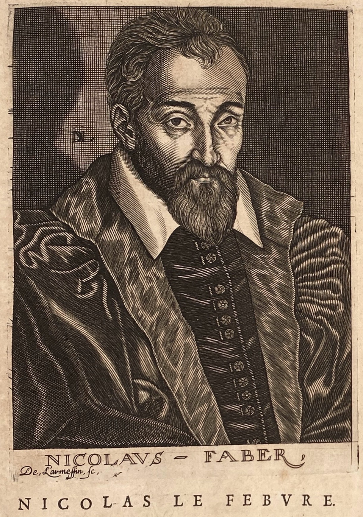 Half-length portrait of Nicasius le Febure, French chemist and alchemist, engraved on a copperplate by Nicolas de Larmessin; from the book Académie Des Sciences Et Des Arts by Isaac Bullart, published in Amsterdam by Elzevier in 1682.